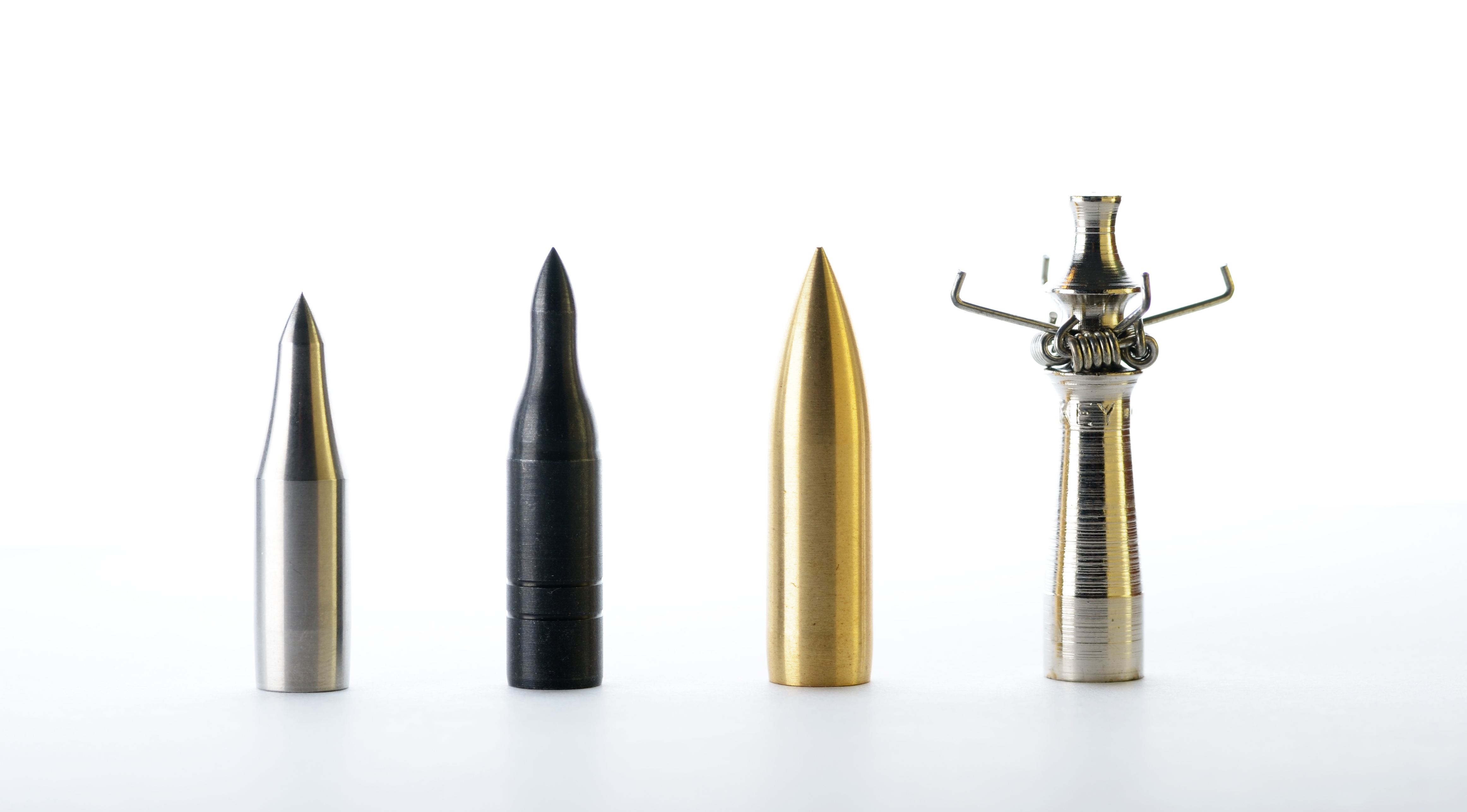 Arrowheads of different weight and design. From left to right: 70 gr 3D head, stainless steel; 100 gr field head, blued steel; 125 gr bullet point, brass; 140 gr Judo Point, stainless steel.